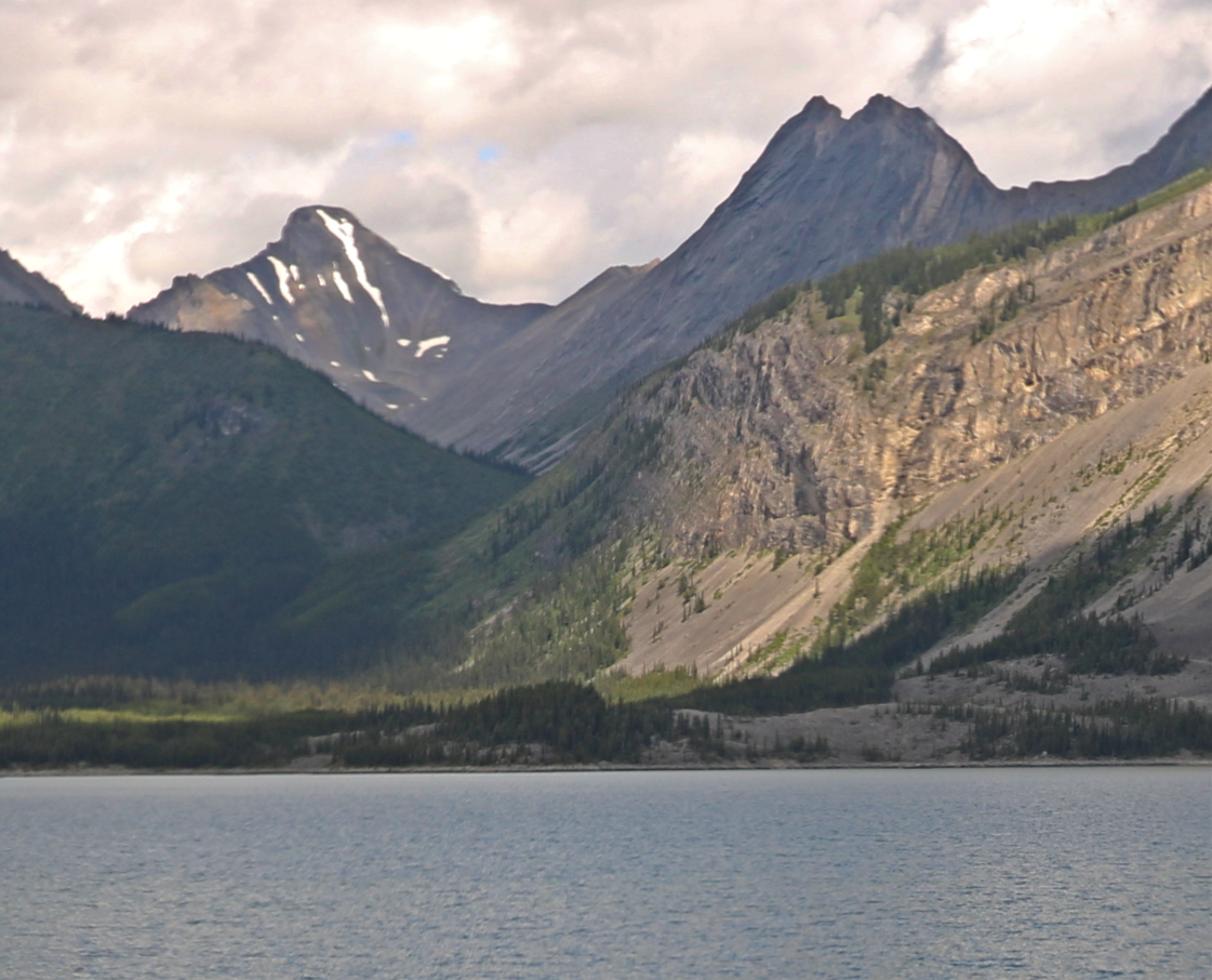 Upper Kananaskis Lake with Mounts Warspite (left) and Invincible (right)